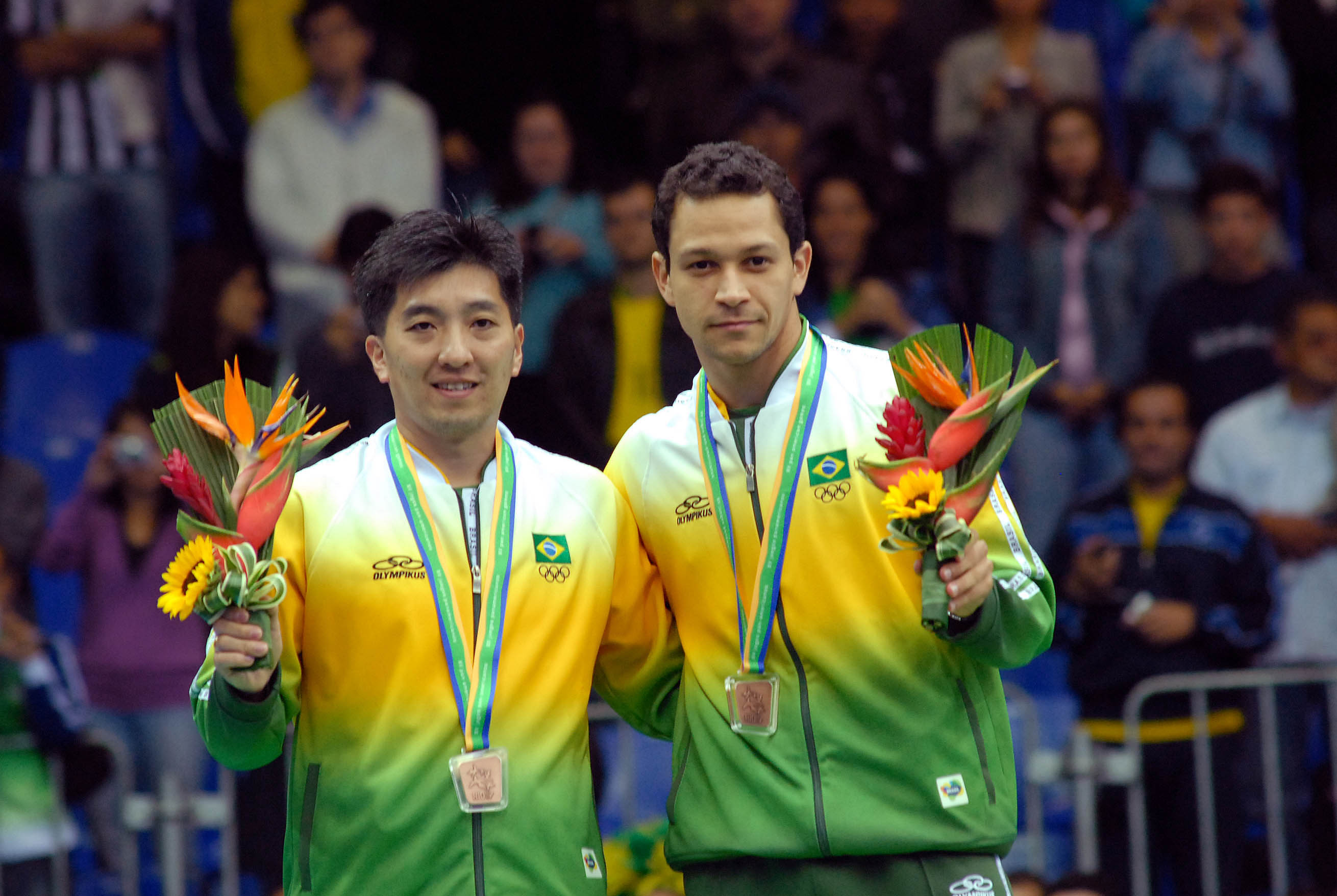 Hugo Hoyama and Thiago Monteiro of Brazil both finish third in the Men's Singles table tennis tournament at the 2007 Pan American Games in Rio de Janeiro.